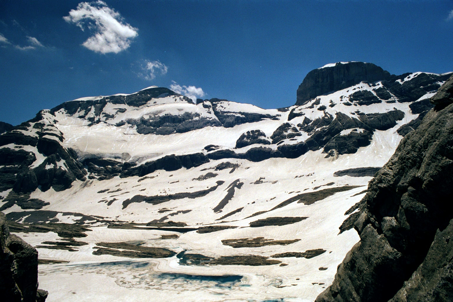 Monte Perdido (3355m) and Cilindro de Marboré, viewed from Breche de Touquerouye in July 2001, High Pyrenées, Pyrenées, Spain